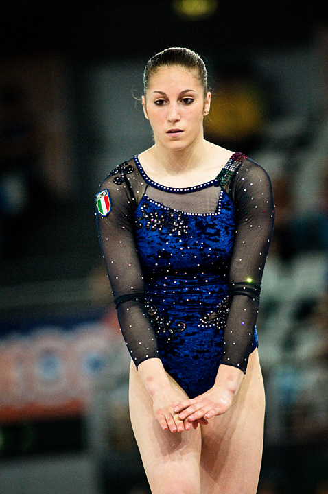 Carlotta Giovannini at the Mediterraneo Gym Cup July 5th 2008 in Rome